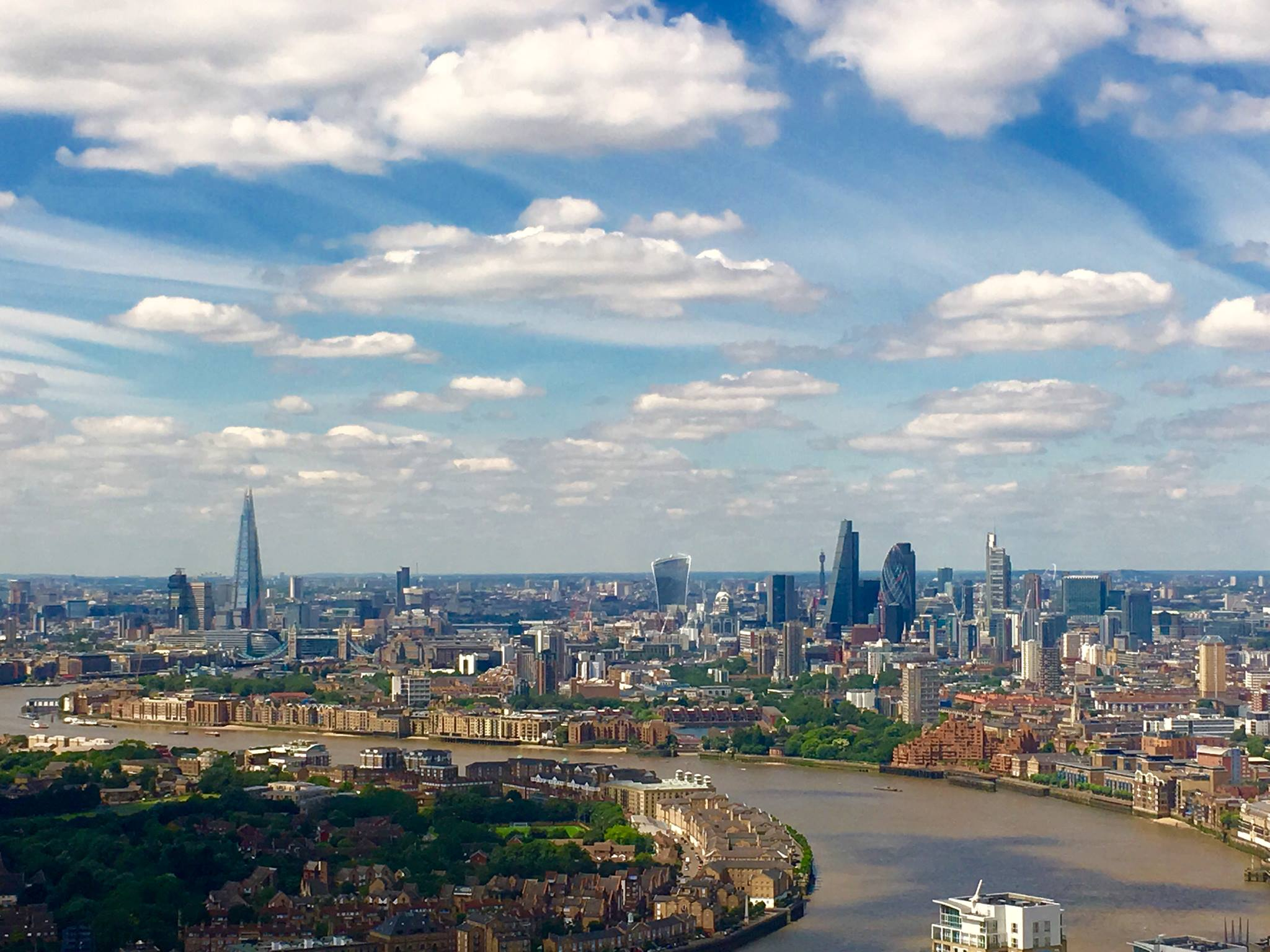 View facing West from UCL School of Management. Visible in the picture are London landmark building including the Shard, the Gherkin, the Leadenhall Building, the Walkie Talkie and the BT Tower.